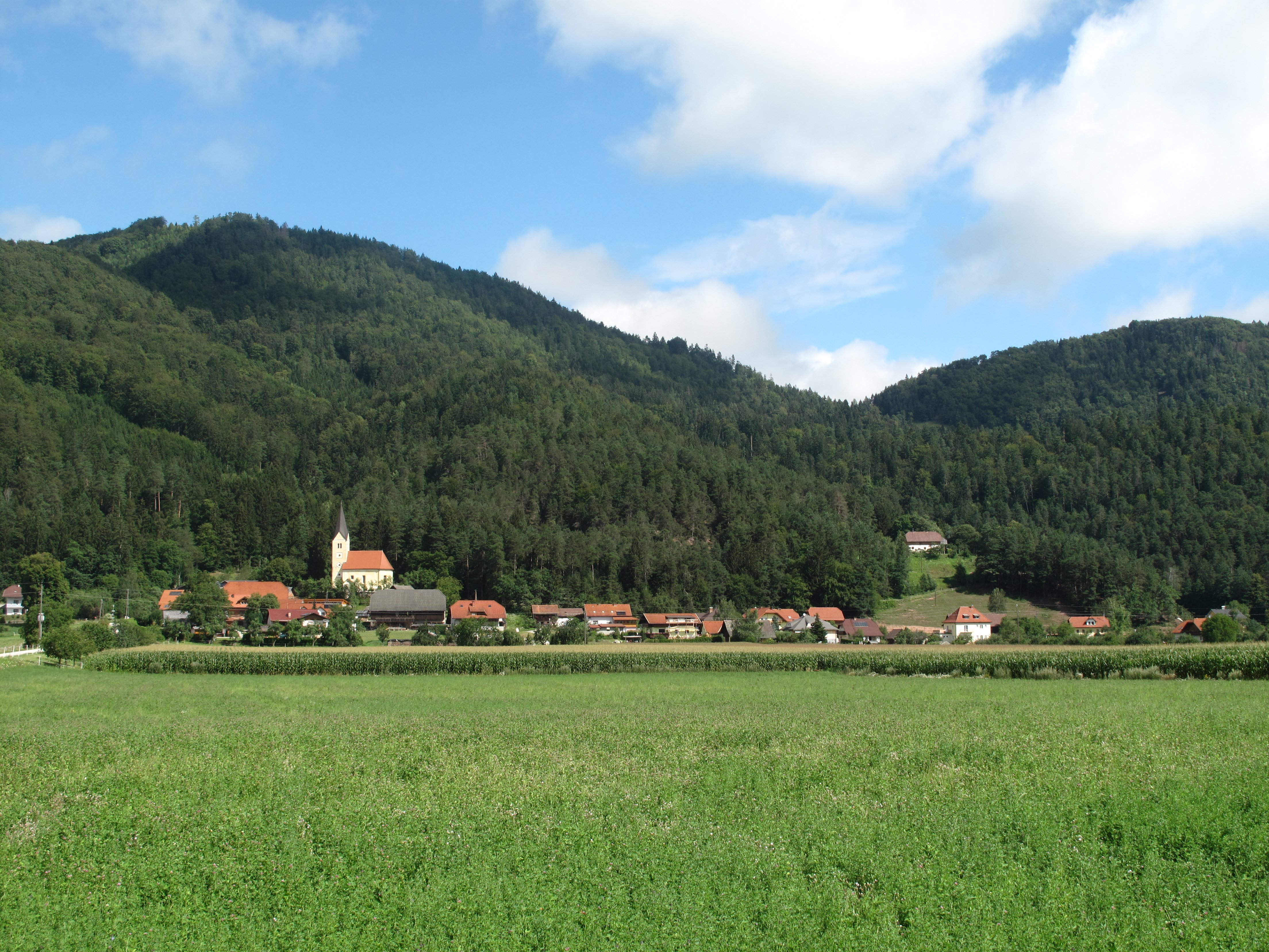 St. Radegund, view to a village